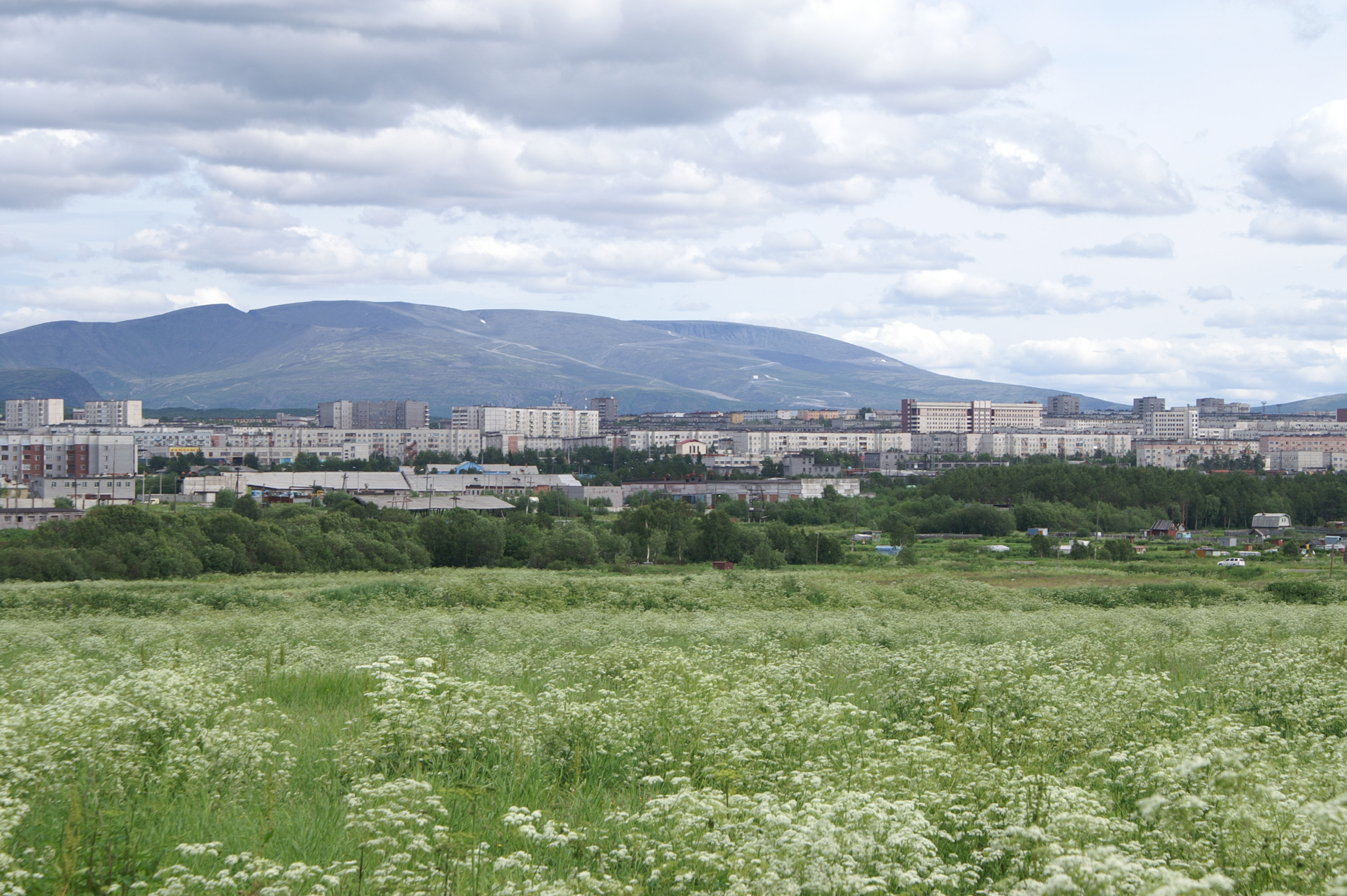 The city of Apatity and Khibiny mountains